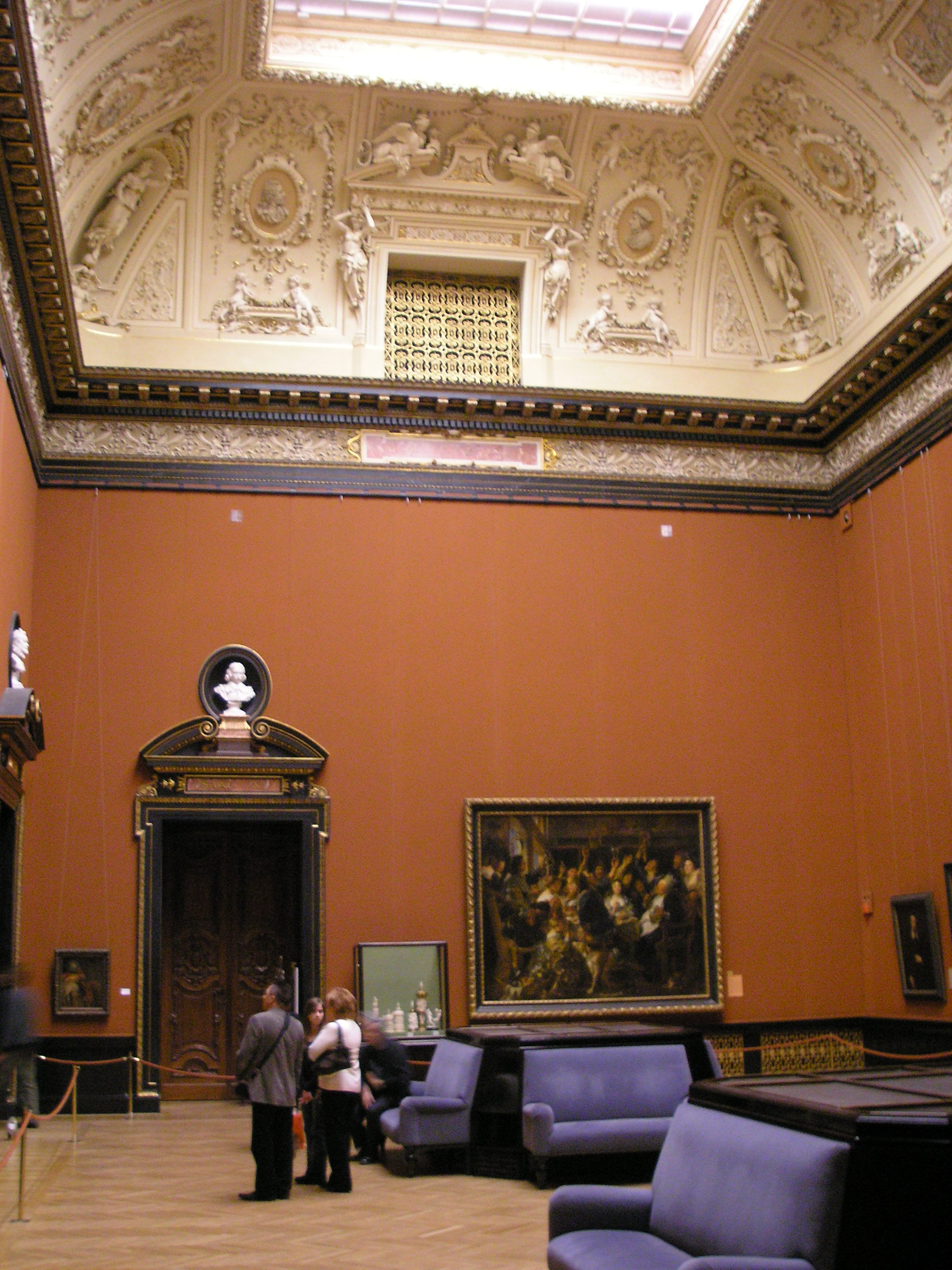 Description: One of the rooms in the Kunsthistorisches Museum in Vienna. Ein Raum im Kunsthistorischen Museum in Wien. Fall 2005. Source: Self-made, I release it into the public domain.